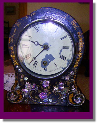 This old clock was brought ashore at Mossel Bay, South Africa, in 1752, by Bartell Pieterse, where the Danish ship CRON PRINCESSES was wrecked